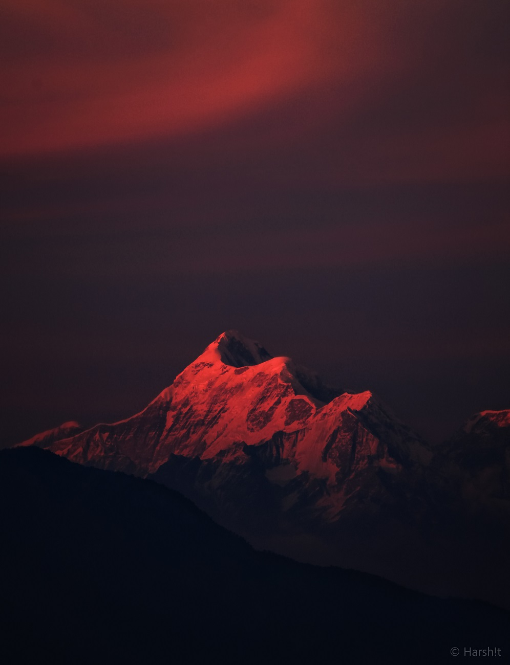 Trishul Group of peaks (7120 meters) form the barrier ring of Nanda Devi's as well as Nanda Devi National Park's South Western Edge.